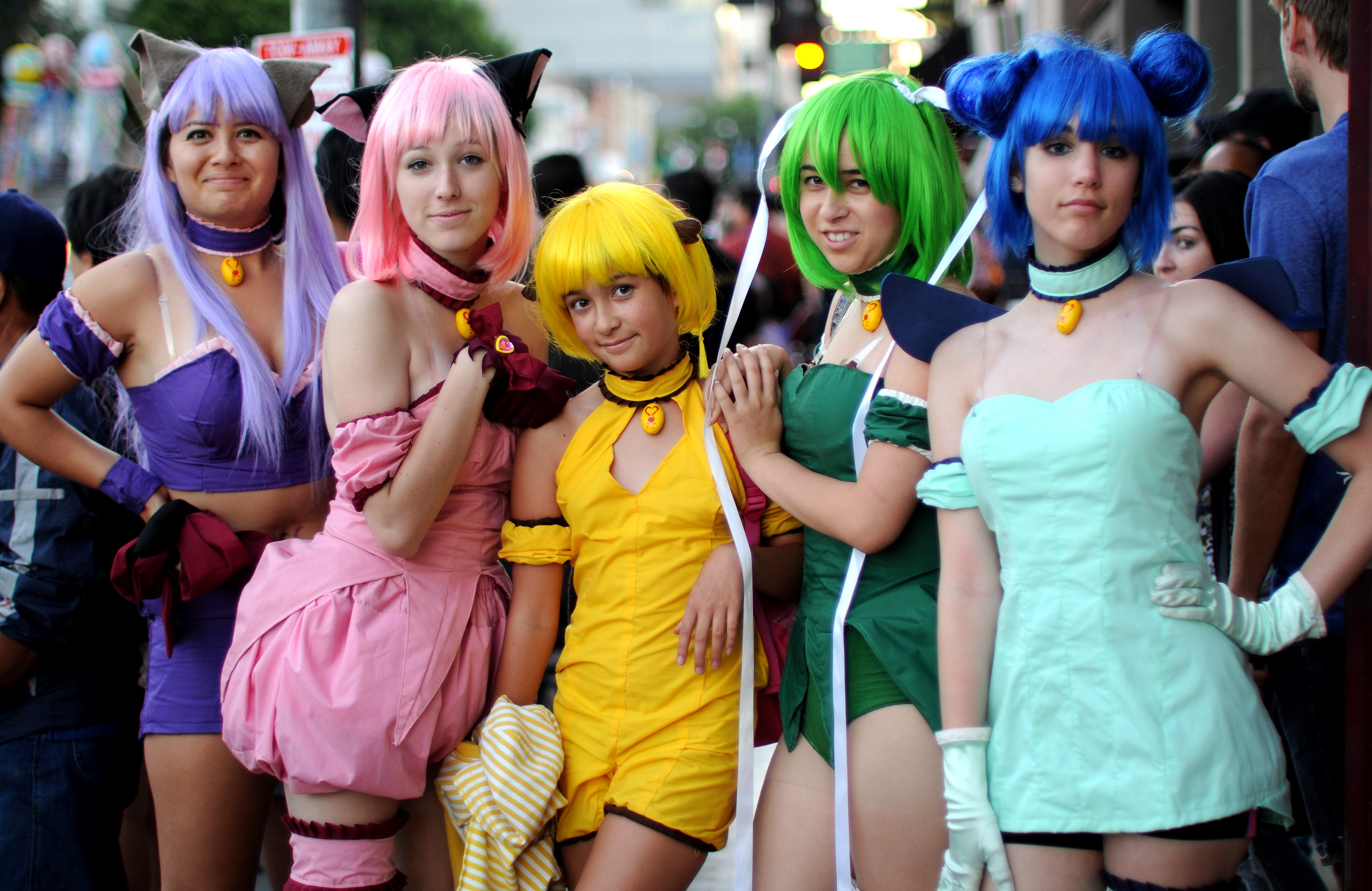 Little Tokyo, Los Angeles. Went to a Japanese parade and saw a bunch of cosplayers there. Here are some colorfully dressed and wigged girls. I have no idea what they're supposed to be!